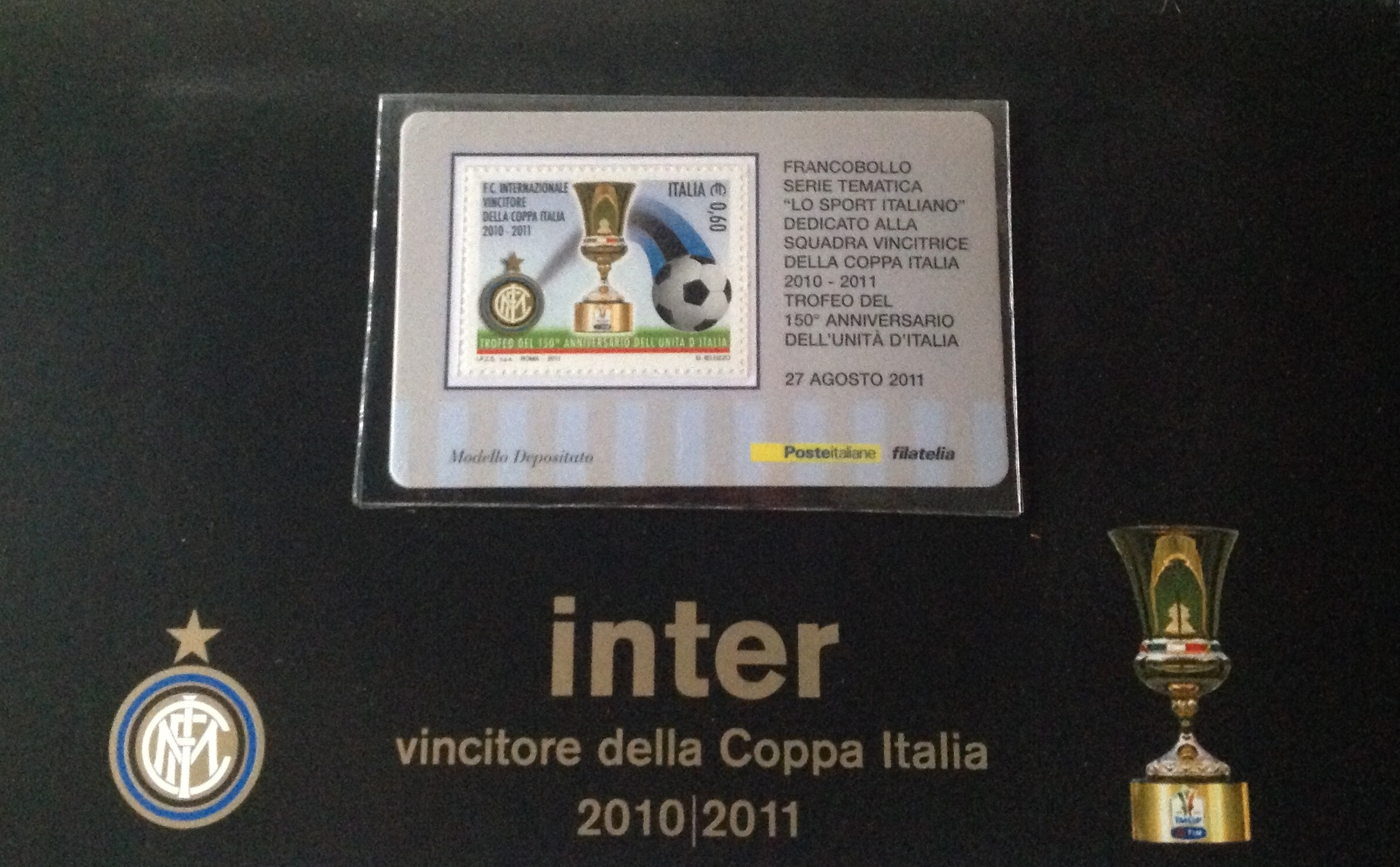 Part of a Celebrative paper containing also a postcard and a envelop